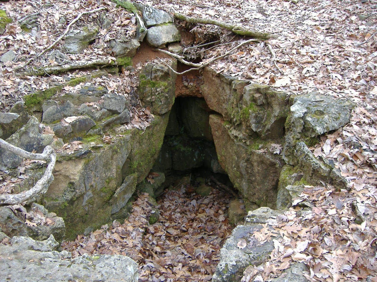 A closeup of Squire Boone's original burial cave, located in the Squire Boone Caverns complex in Harrison County, Indiana.